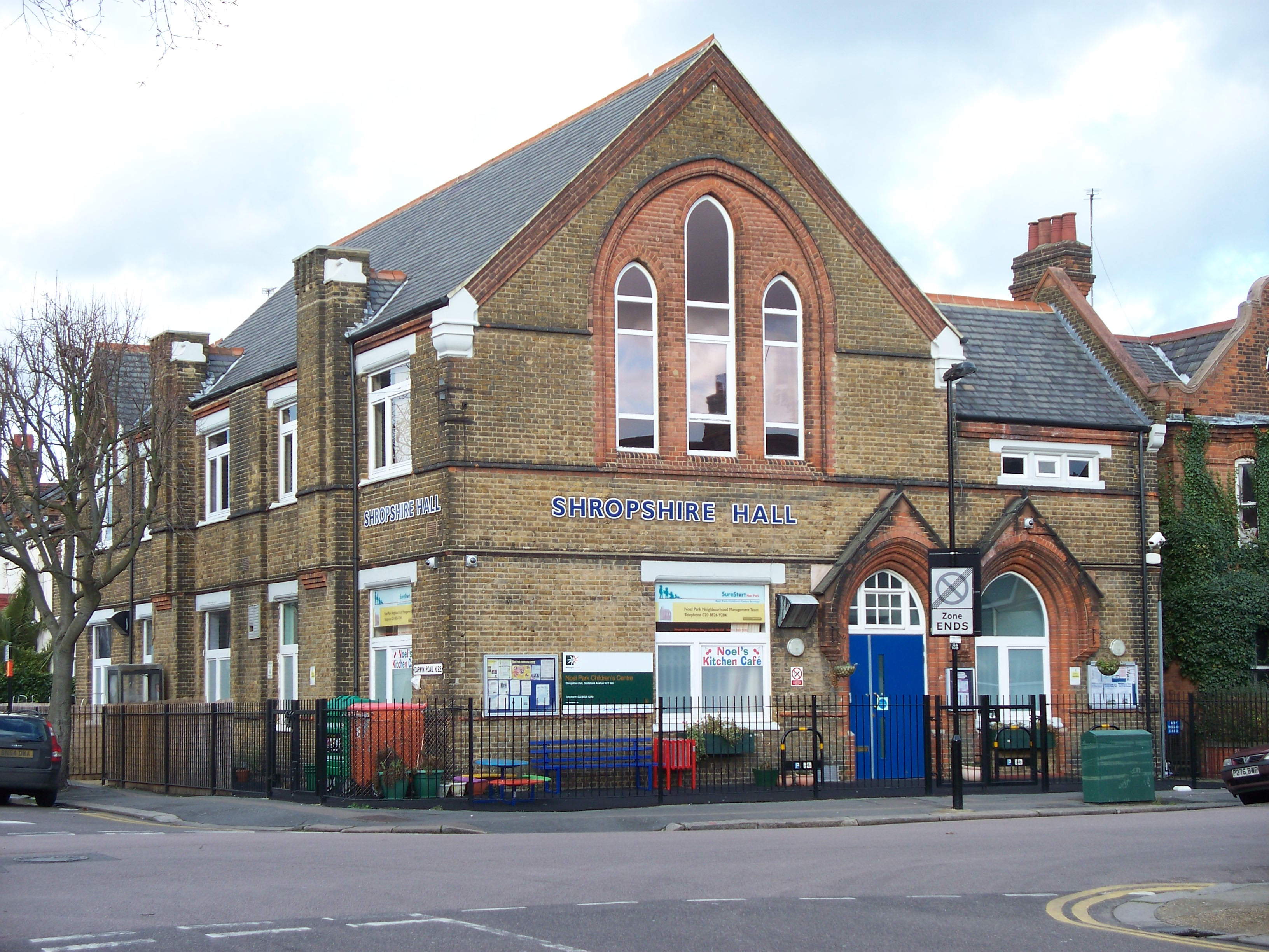 Shropshire Hall, Darwin Road, London N22. Photograph taken in a public location in the UK of a building on permanent public display, and exempt from copyright under Section 62 of the Copyright Designs & Patents Act 1988 ("it is not an infringement of copyright to film, photograph, broadcast or make a graphic image of a building, sculpture, models for buildings or work of artistic craftsmanship if that work is permanently situated in a public place or in premises open to the public")